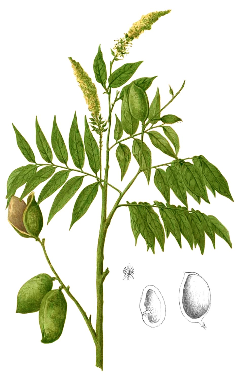 Plate from book